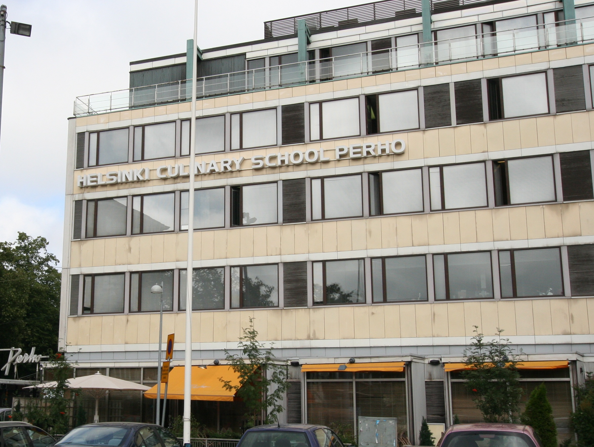 Helsinki culinary school